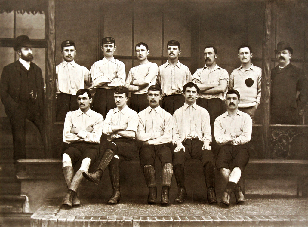 The Preston North End F.C. team. They would win the 1889 FA Cup final. Standing: Sudell (manager), Holmes, Ross, Russell, Howarth, J. Graham and Dr Mills-Roberts. Seated: Gordon, Ross, J. Goodall, F. Dewhurst.